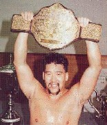 Masahiro Chono (蝶野正洋), japanese popular professional wrestler. Snapshot taken by fan dated 1992 after NWA World Heavy Weight Championship title match